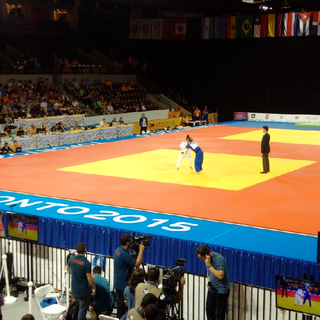 Judo at the 2015 Pan American Games